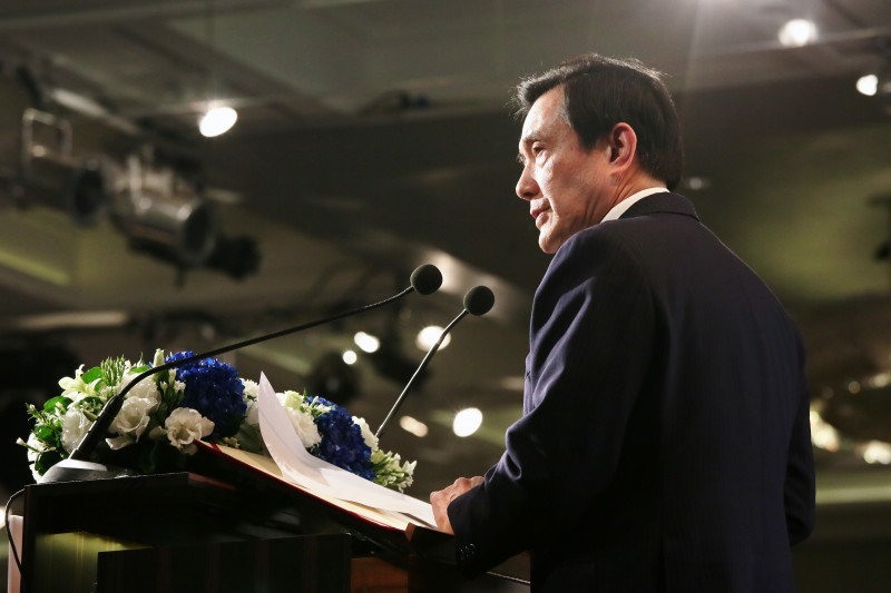 President attends 2014 Hsieh Nien Fan banquet held by American Chamber of Commerce in Taipei. (2014/03/11)